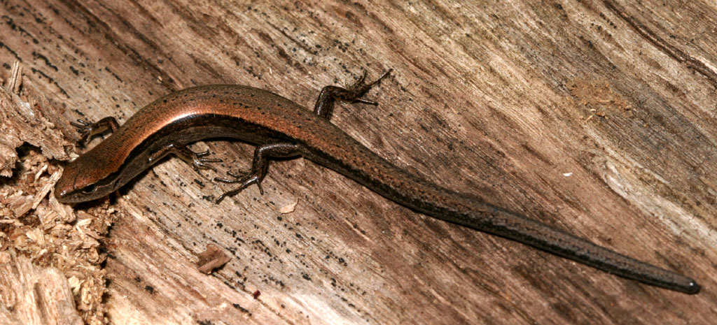 Ground Skink, Scincella lateralis. Location: Orange County, North Carolina, United States